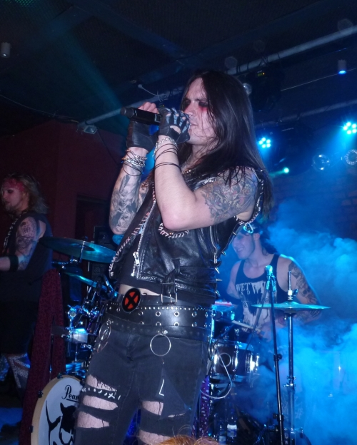 Lon live in Warsaw (2013)